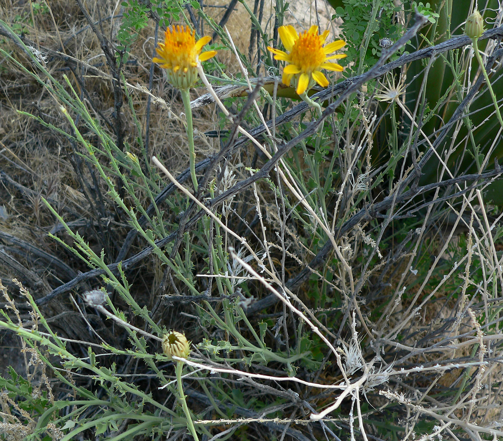 Adenophyllum cooperi in Pahranagat Wash where it crosses State Road 168 near Coyote Springs, southern Nevada